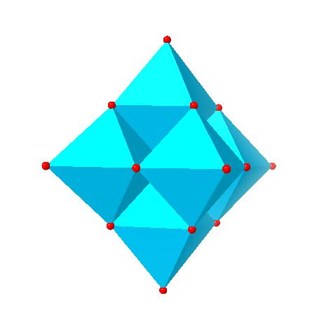 Structure of Lindquist polyoxometalate